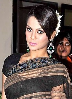 Sana Saeed at the Global Peace Fashion Show by Neeta Lulla 2013.